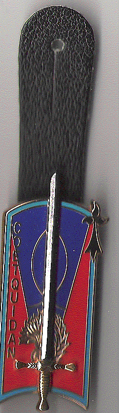 Badge General Military Schools.